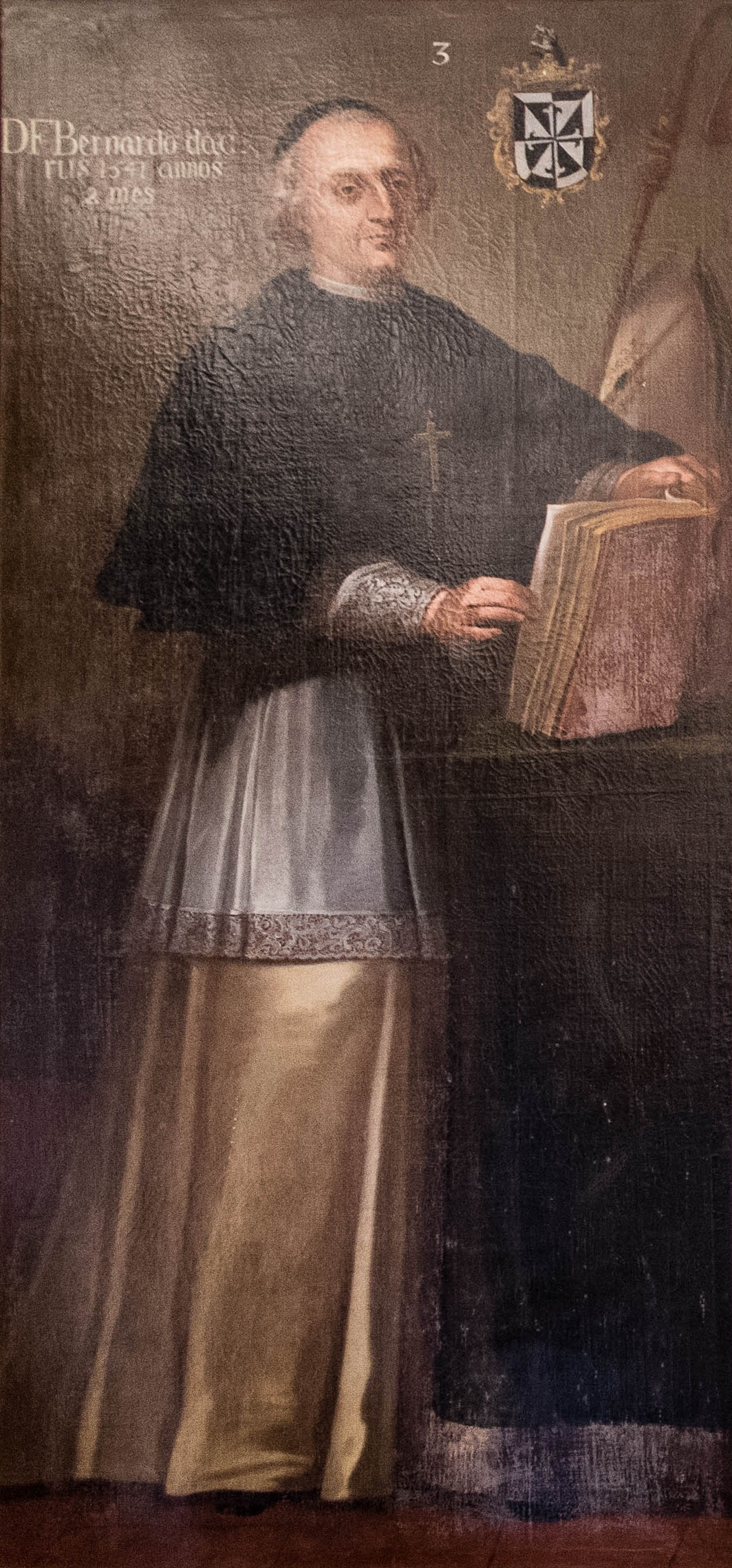 Friar Bernardo da Cruz (c.1503-1565), Rector of the University of Coimbra from 1541 to 1543